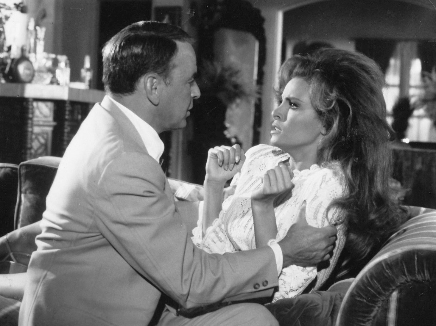 Photo of Frank Sinatra and Raquel Welch from the motion picture Lady in Cement. I am aware that Getty Images has a copy of the photo with the bottom portion of the front not shown and no view of the back of the image. There is no claim of copyright made for the photo at Getty. The item has no copyright markings on it as can be seen in the links above.